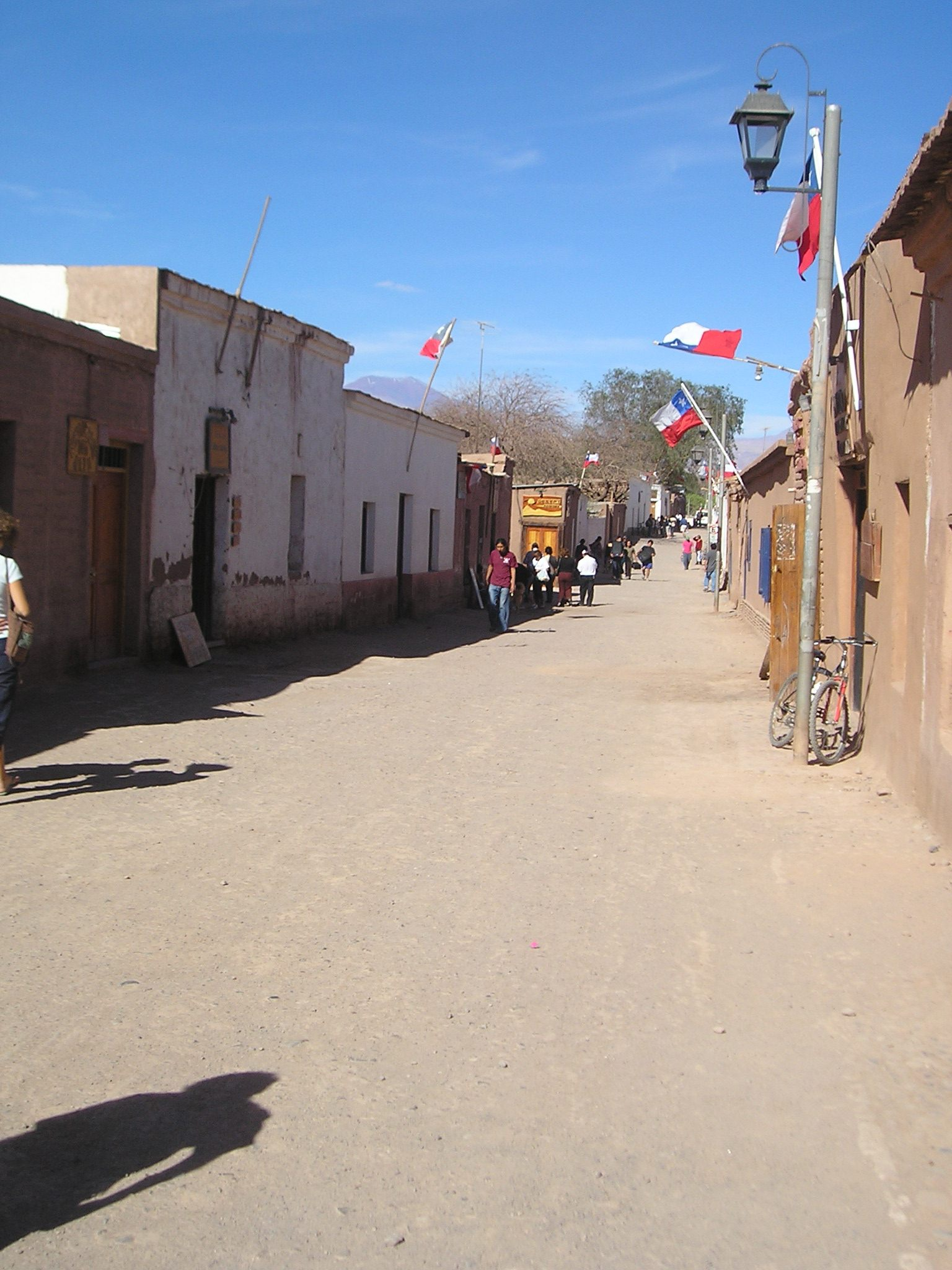 San Pedro de Atacama, Chile - Caracoles, the town's main street